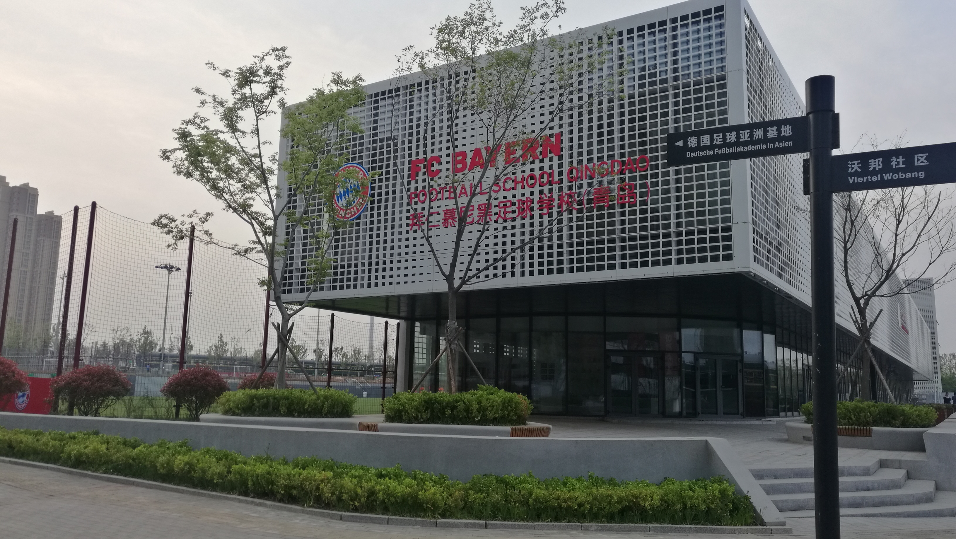 Bayen football school